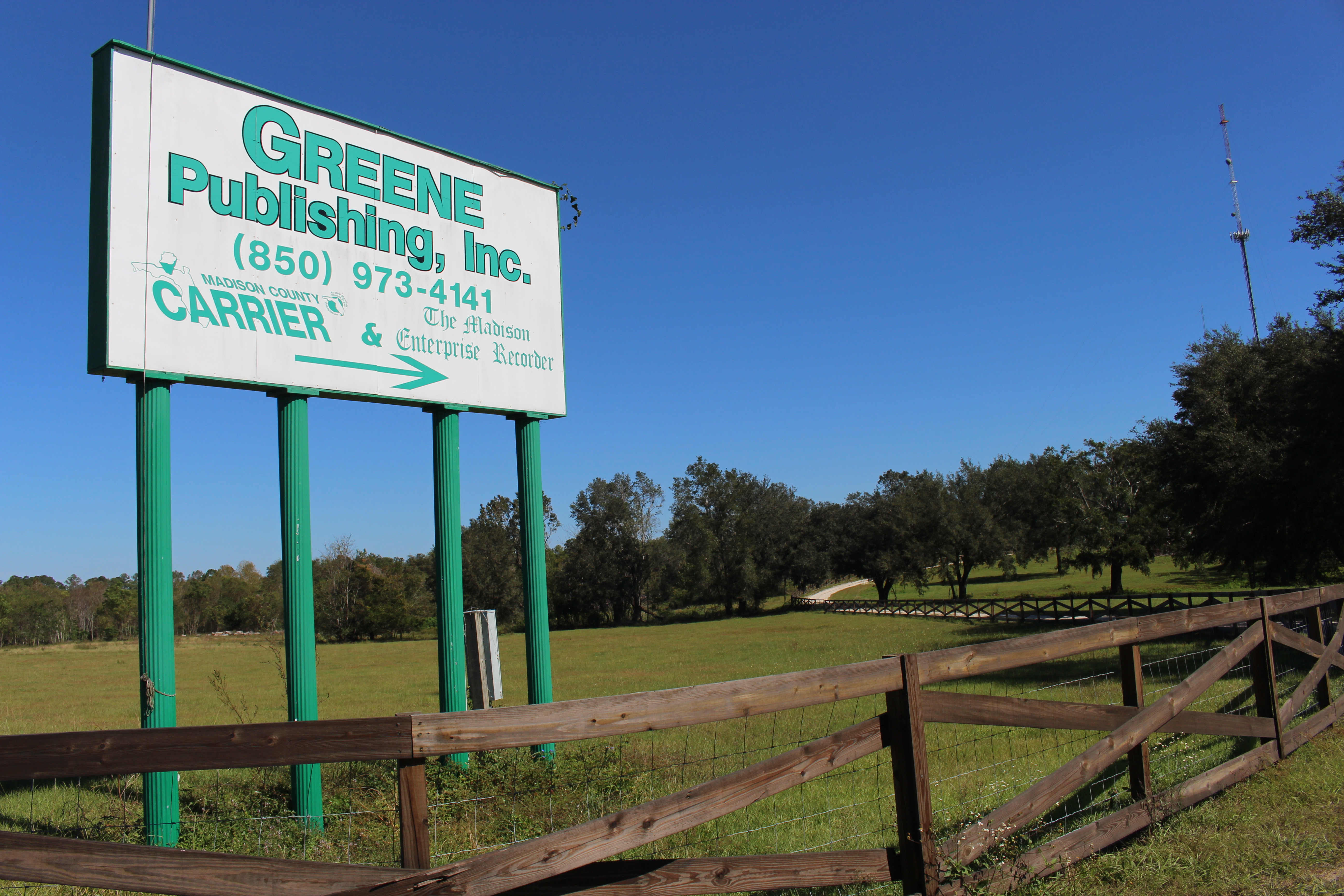 Greene Publishing (Madison County Carrier - Madison Enterprise-Recorder), 1953 SR 53, Madison County, Florida